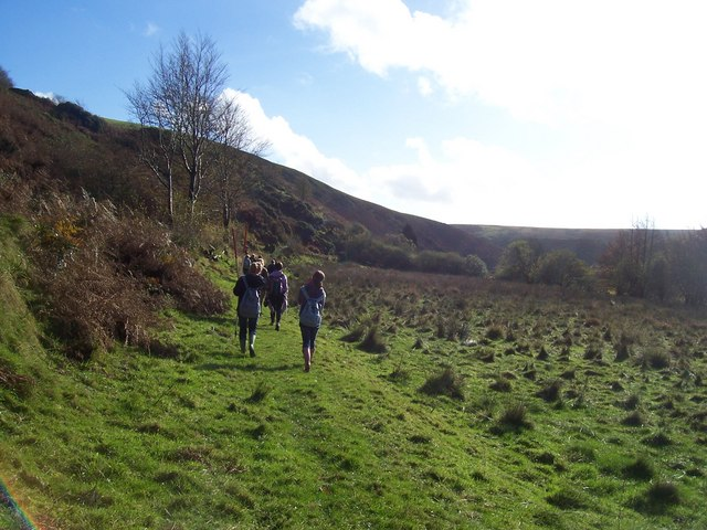 Exmoor : Moorland Exmoor in North Devon